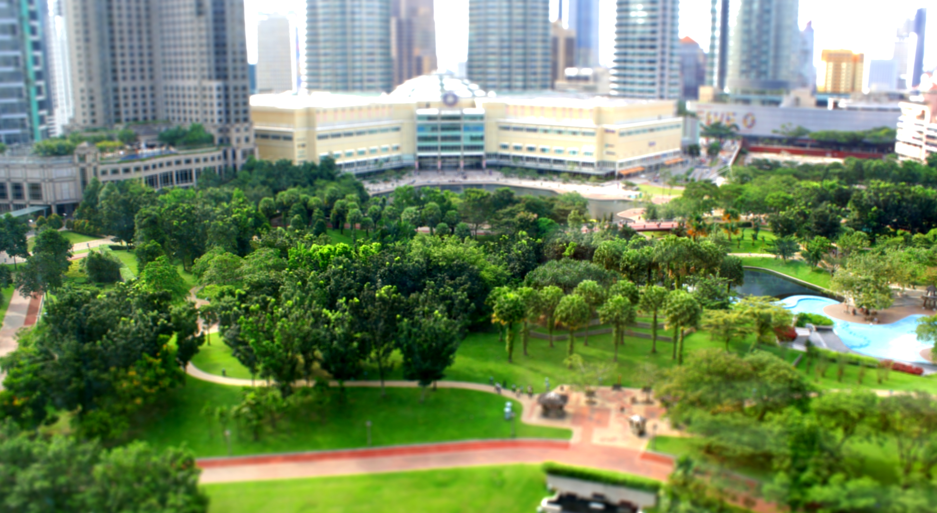 klcc park in tilt shift photography